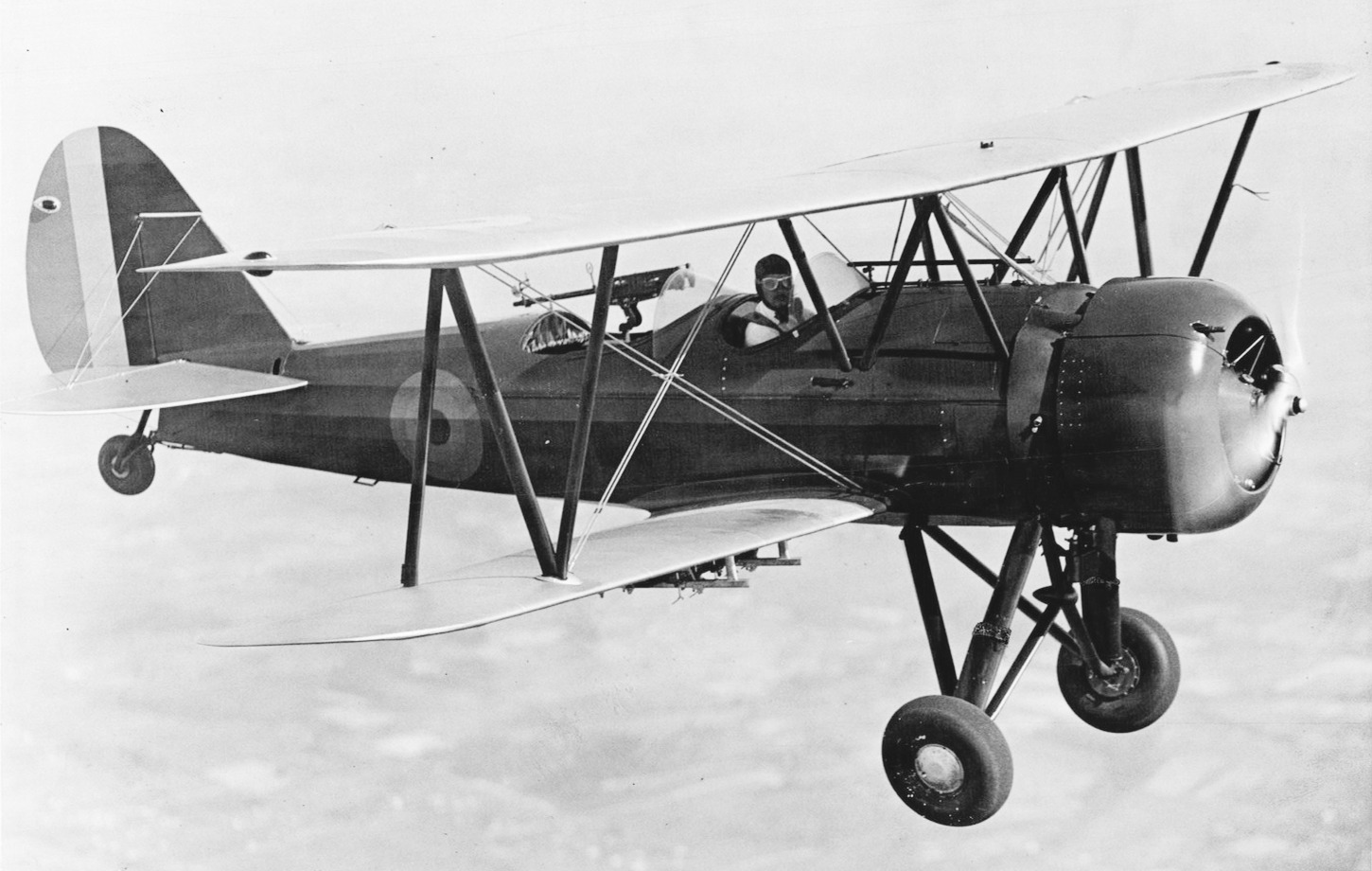 Curtiss-Wright CW-14 C-14R in Bolivian markings, the largest operator of the type